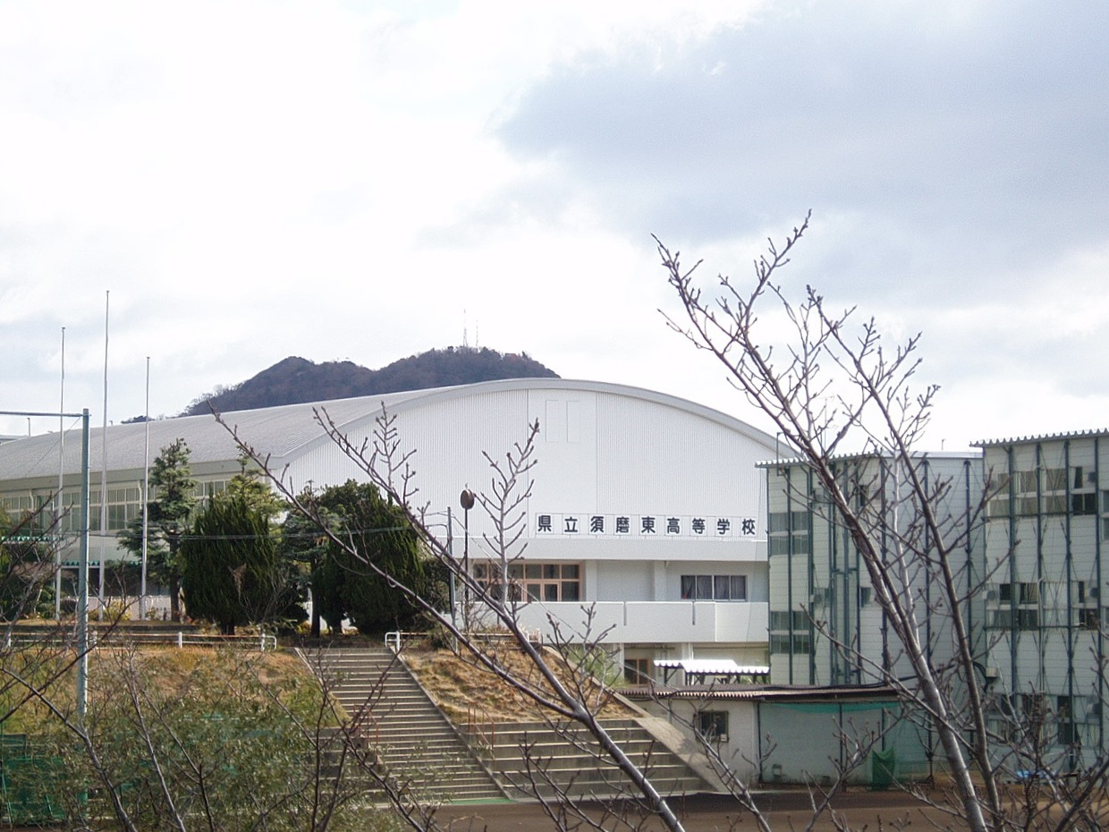 Gymnasium of Hyogo Prefectural Sumahigashi High School located in Suma-ku, Kobe, Hyogo, Japan.